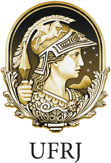 The Roman goddess Minerva is the symbol of the Federal University of Rio de Janeiro, also called the University of Brazil. This symbol is widely used in the university's institutional identity.